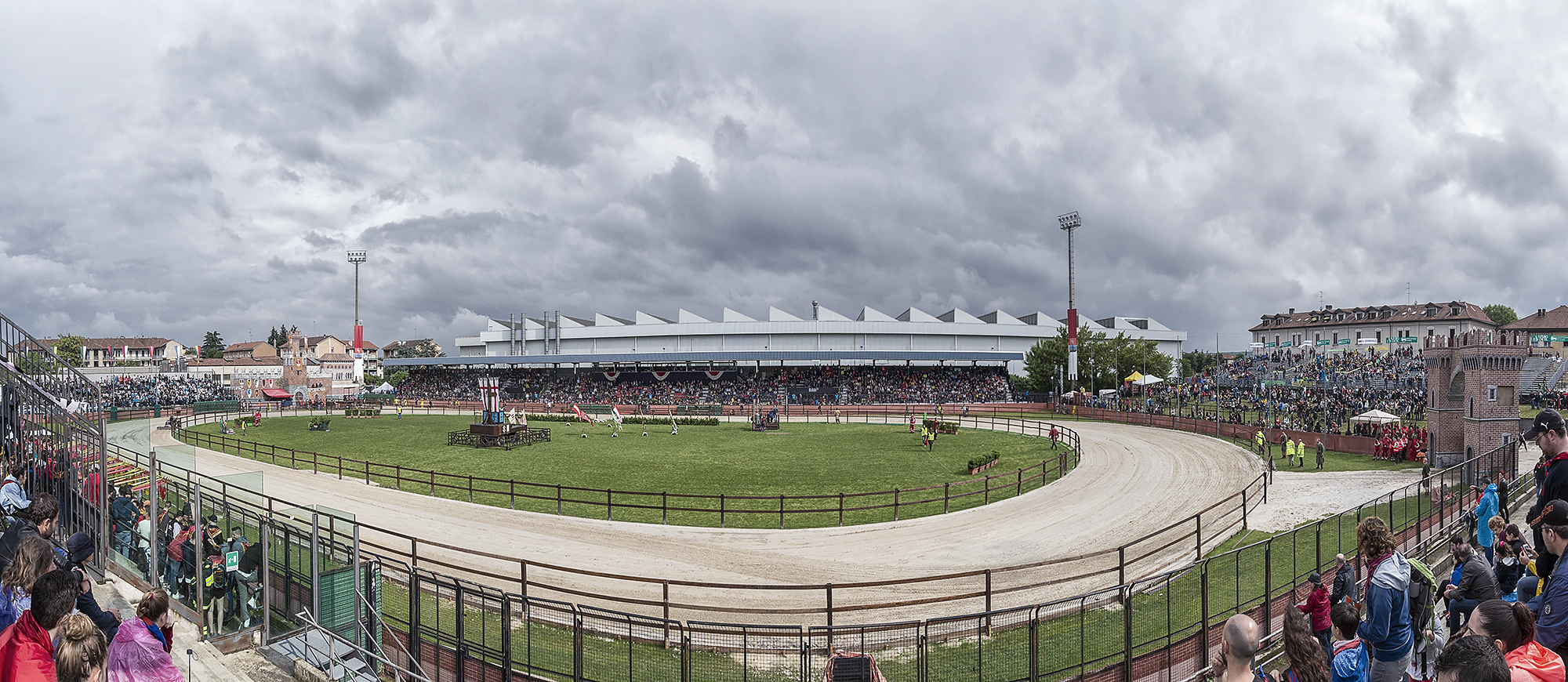 Stadio Giovanni Mari - Legnano This is a photo of a monument which is part of cultural heritage of Italy.